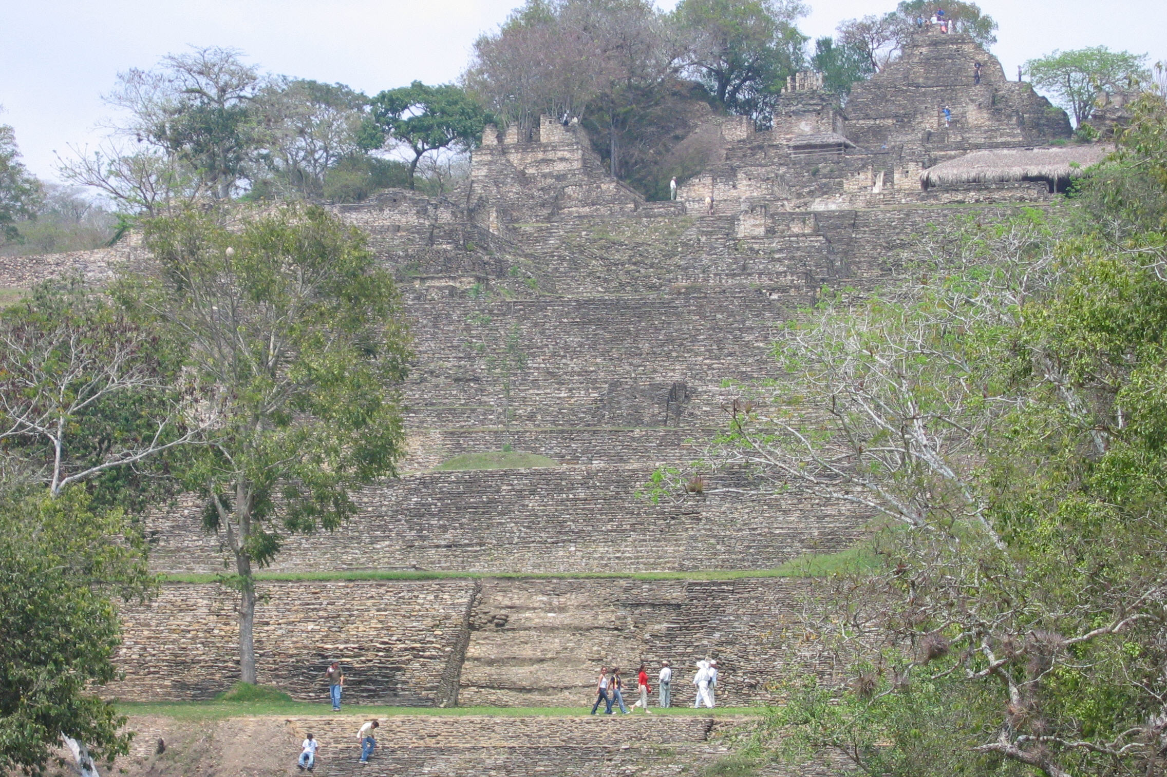 Photo taken by Poppy in March 2005. Toniná - main view